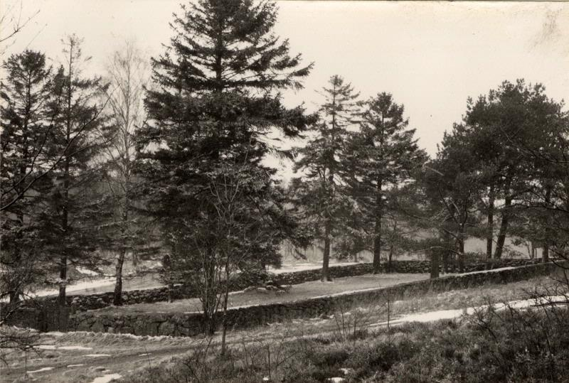 The cholera graveyard in Kallebäck in Gothenburg, established in 1866.